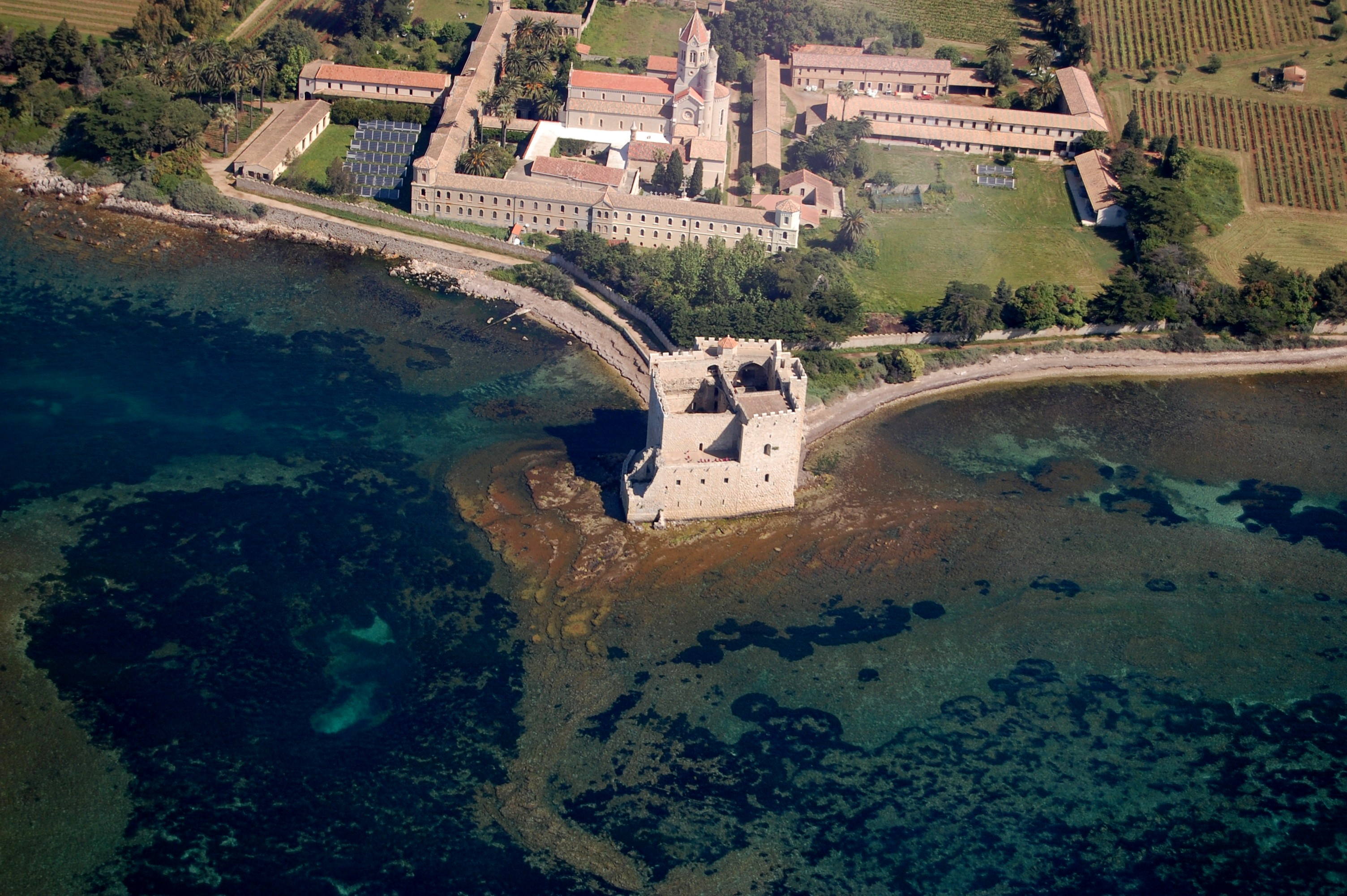 Aerial view of the Lérins Abbey, taken from a helicopter.